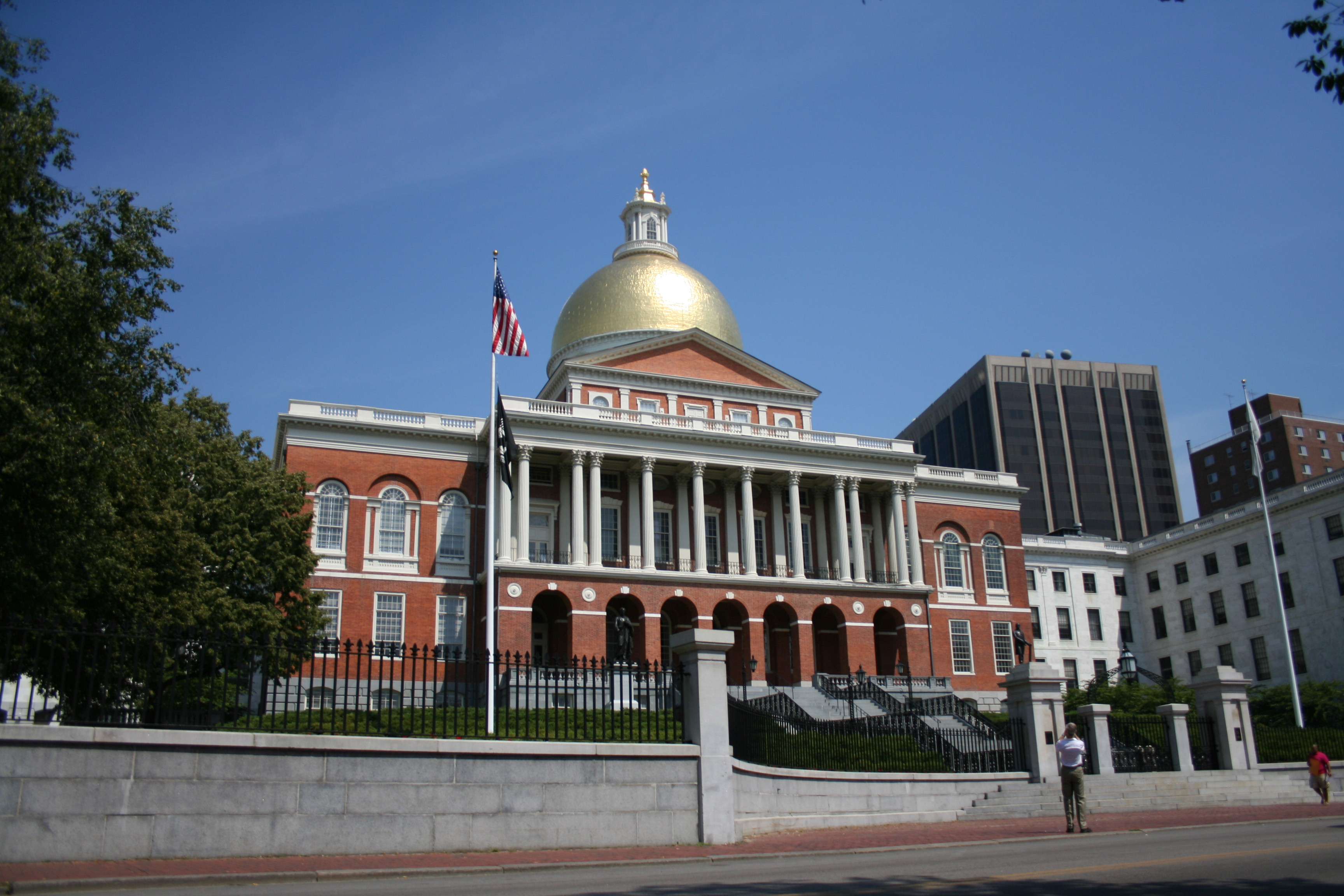 State House of Massachusetts - Boston